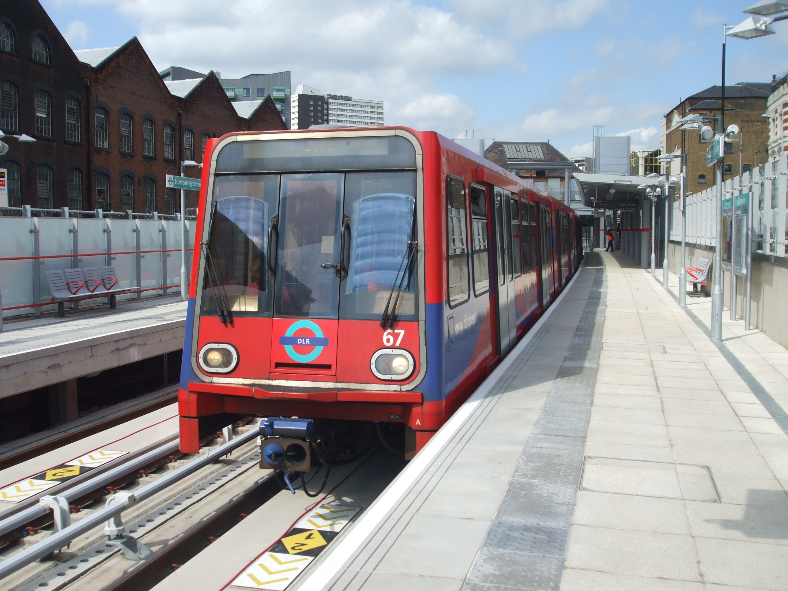 DLR unit 67 calls at Stratford High Street with a Beckton train, soon after the Stratford International branch opened.